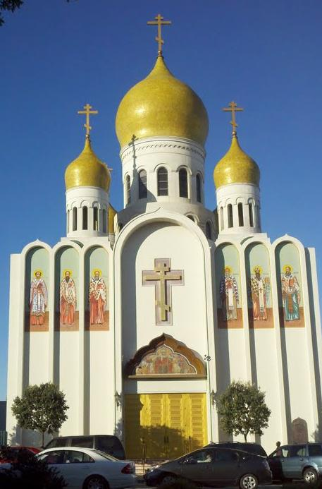 The Holy Virgin Cathedral in San Francisco, California